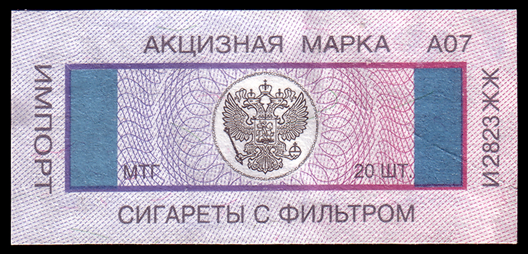 Imported filter cigarettes federal excise stamp of Russia, 2002